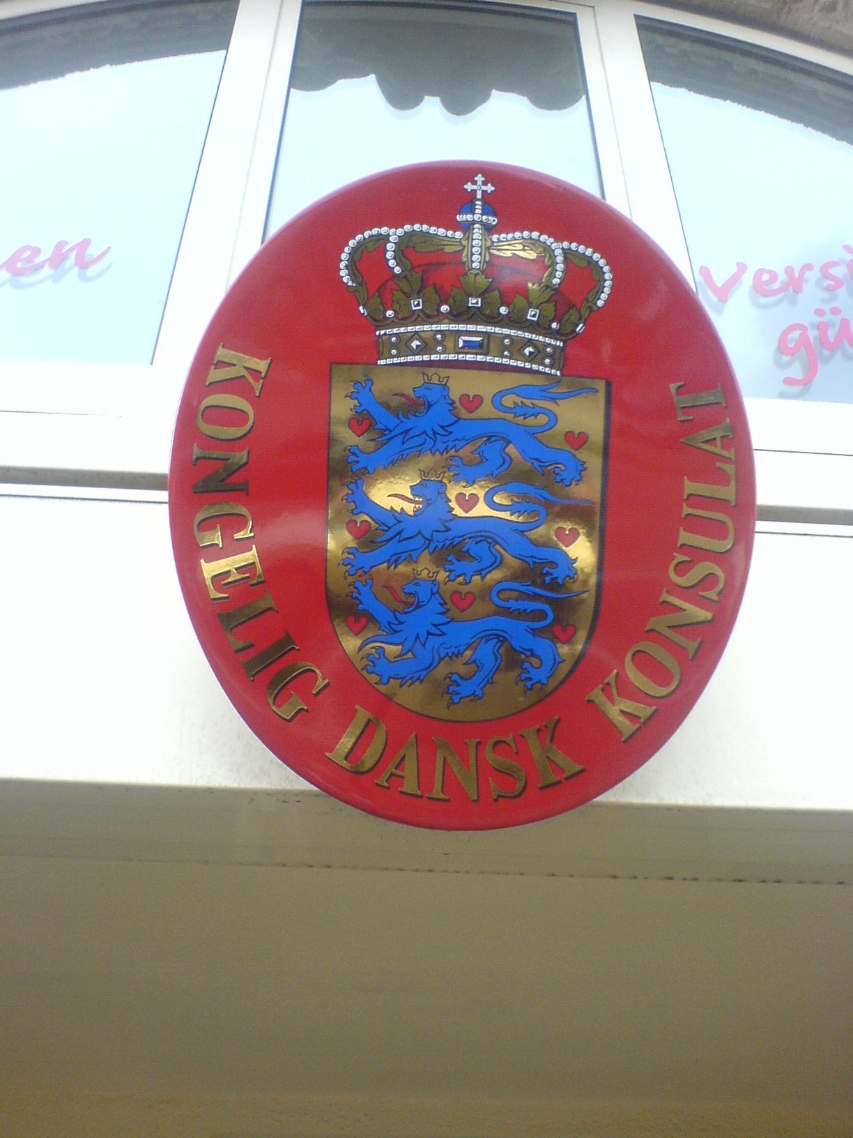 Royal Danish Consulate, Munich